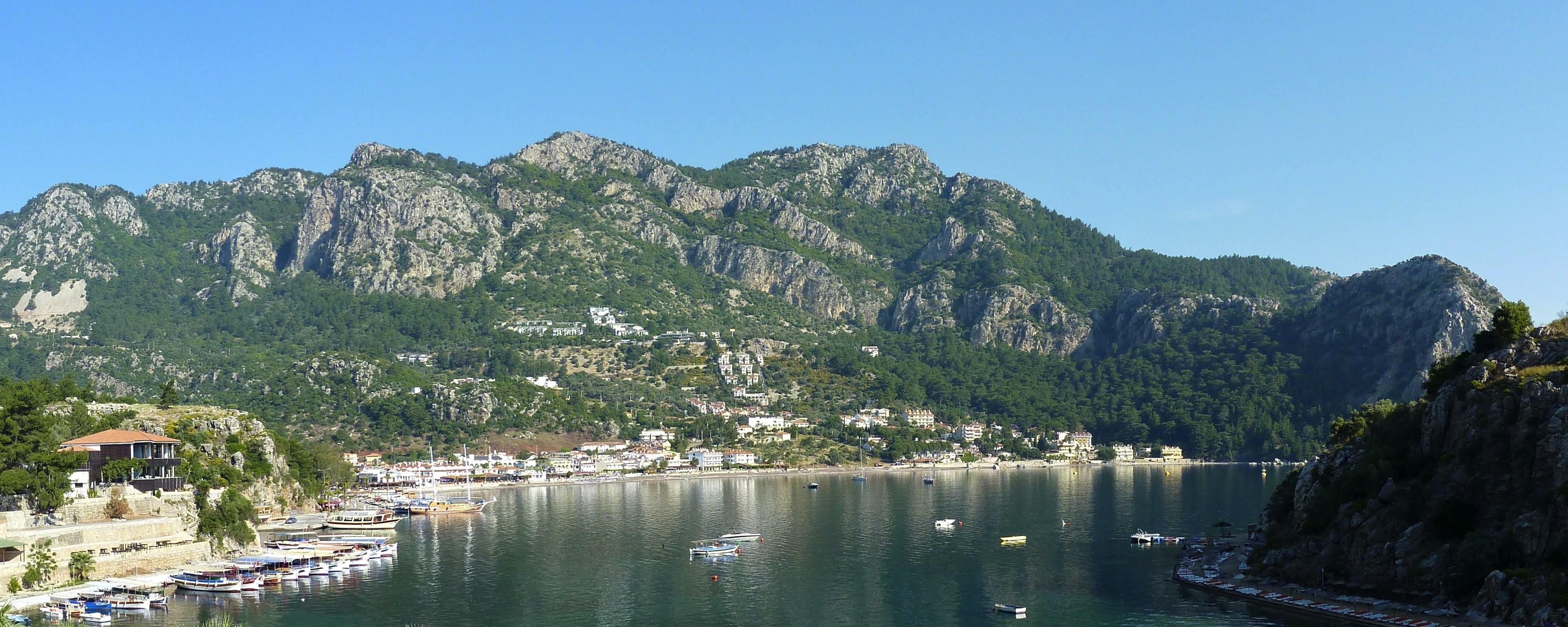 Panorama of Turunç, the view from Otel Turunç.